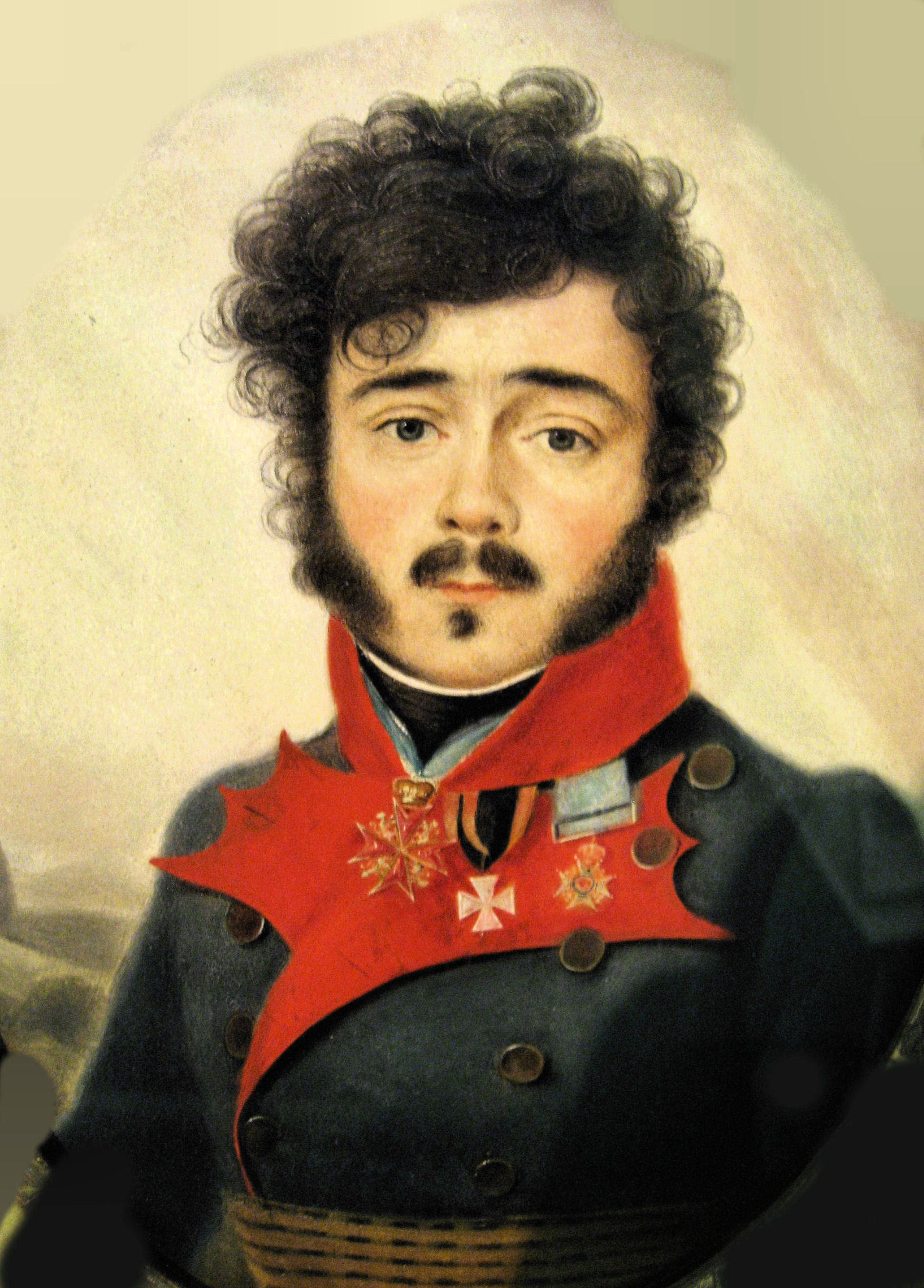 Hermann Gottlob von Greiffenegg, son of Hermann von Greiffenegg, serving Austria as diplomat and officer